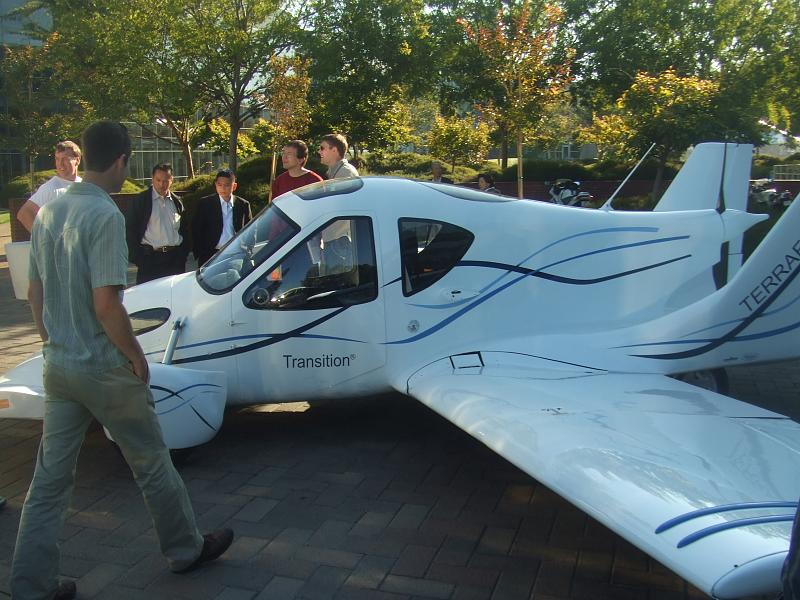 Terrafugia's flyable prototype Transition airplane, later assigned tail number N302TF, being shown during SciFoo 2008 at Google's headquarters in Mountain View, California. Just behind the airplane are two of Terrafugia's founders: Samuel Schweighart (L, red shirt), VP of Engineering; and Carl Dietrich (R, beige shirt), CEO/CTO. FAA Registry